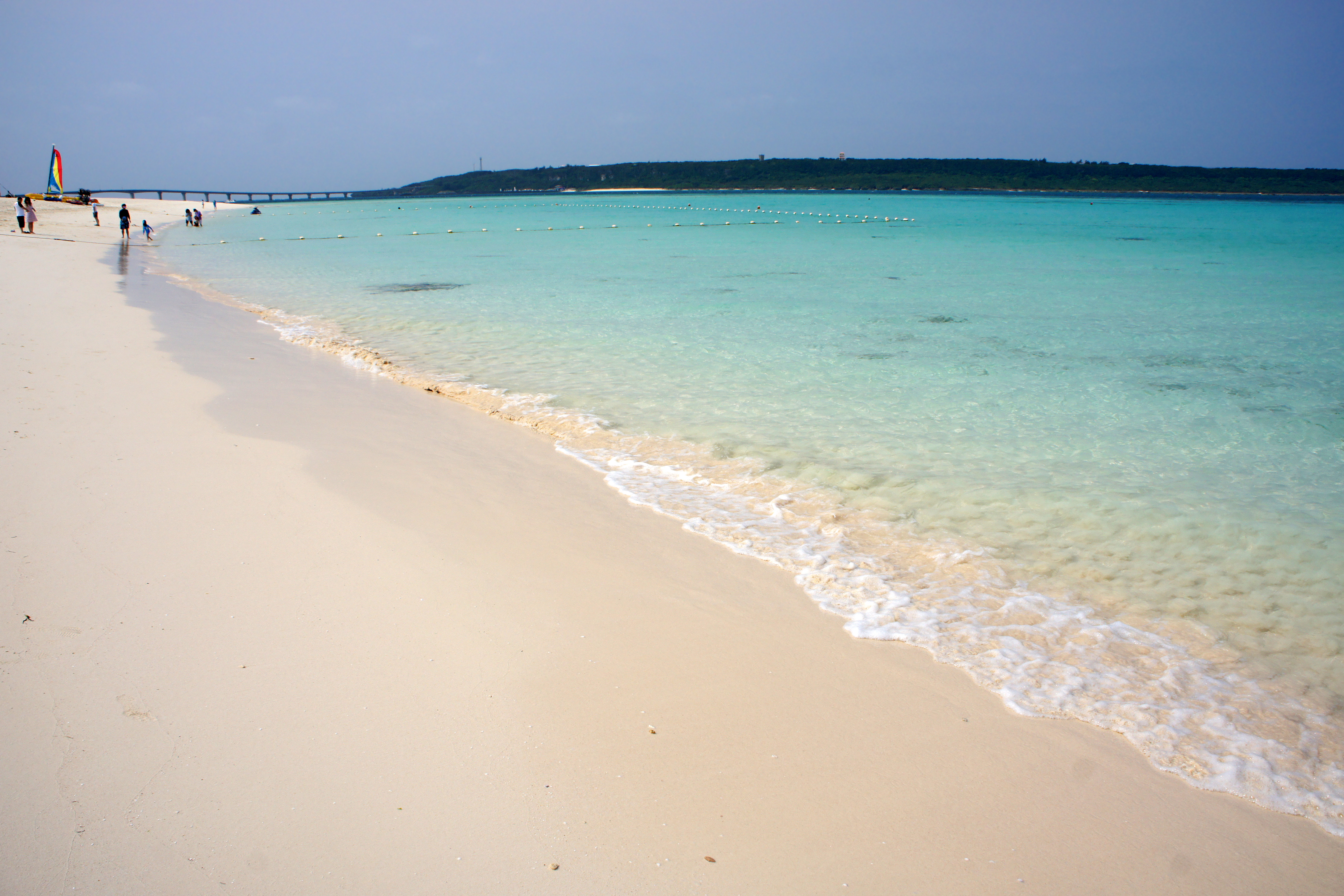 at Yonahamaehama Beach in Miyakojima, Okinawa Prefecture, Japan.